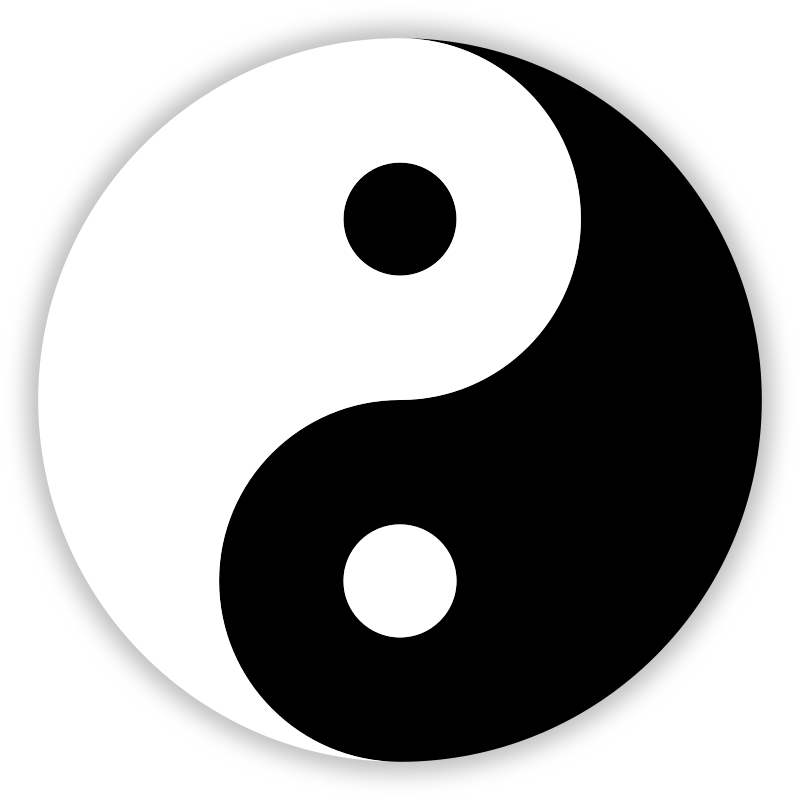 It is a symbol reflecting the intertwined duality of all things in nature, a common theme in Taoism that in every man a woman hides as a female consciousness and in every woman a man hides as a male consciousness.